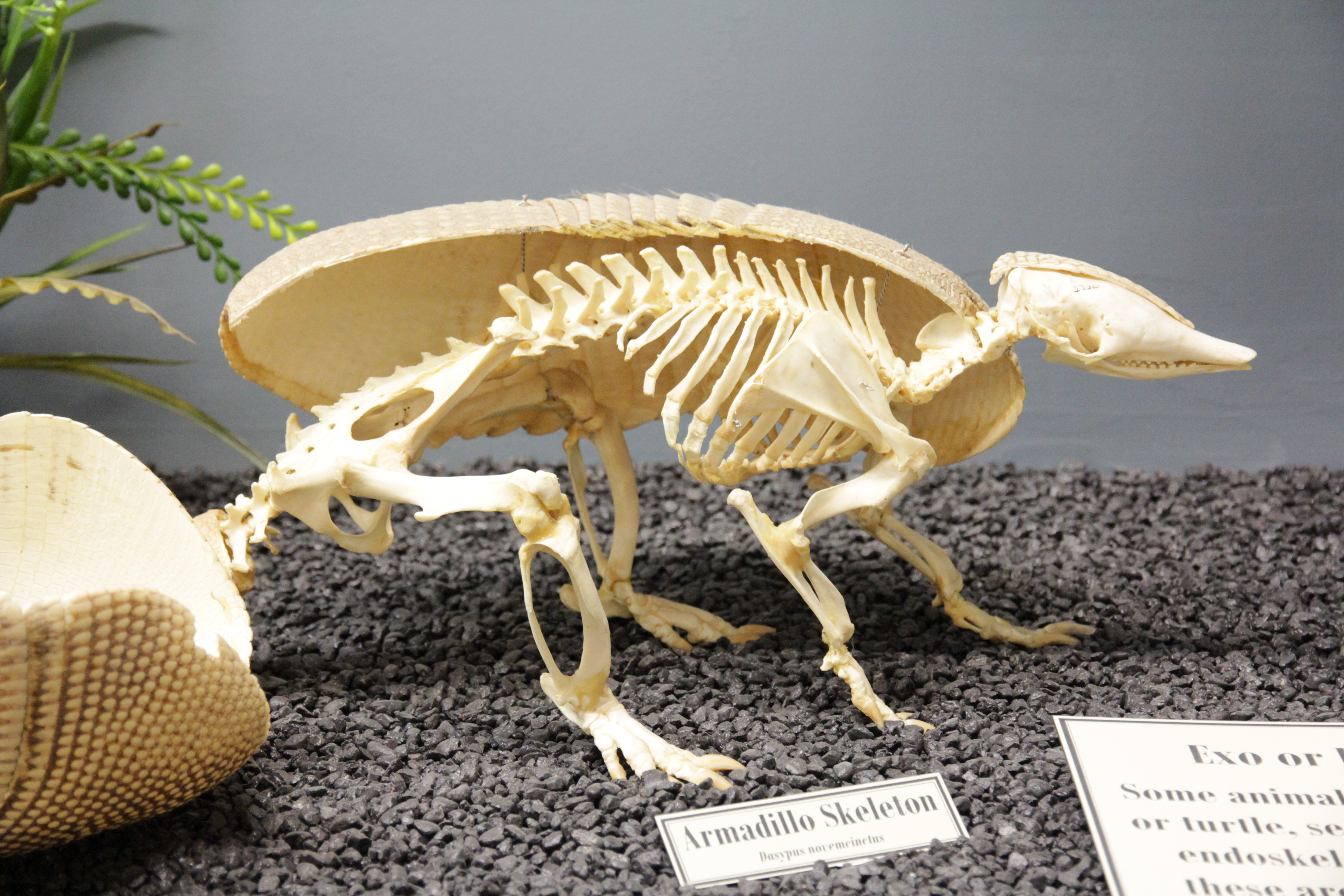 Skeleton of a 9-banded Armadillo with bisected shell on display at the Museum of Osteology.